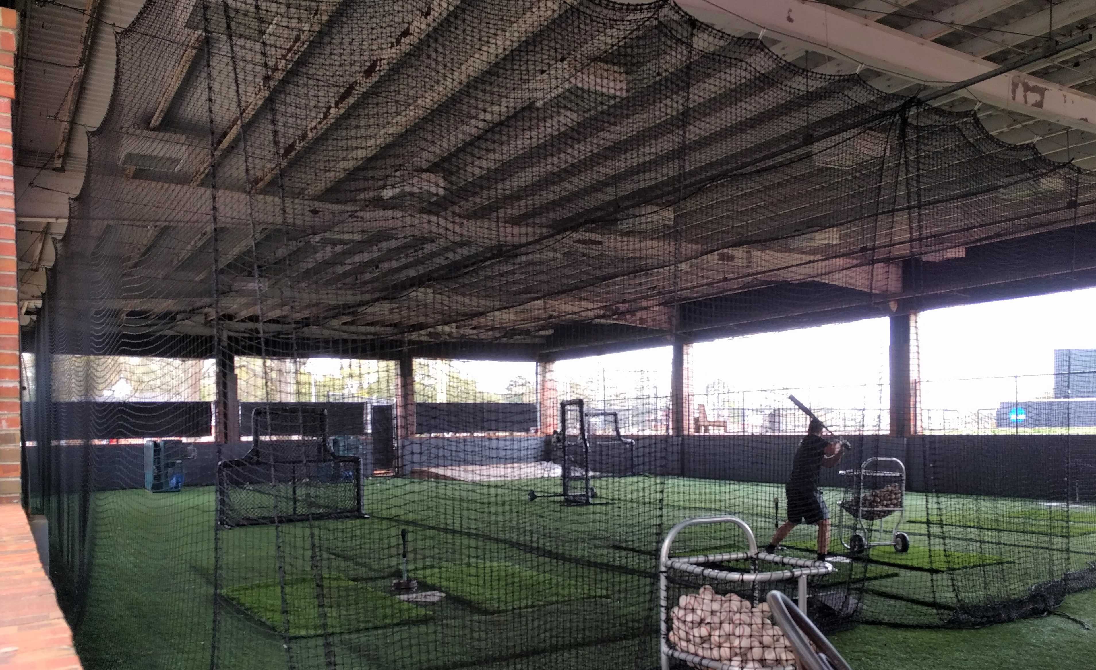 View of the batting cages inside the Lott Baseball Complex.